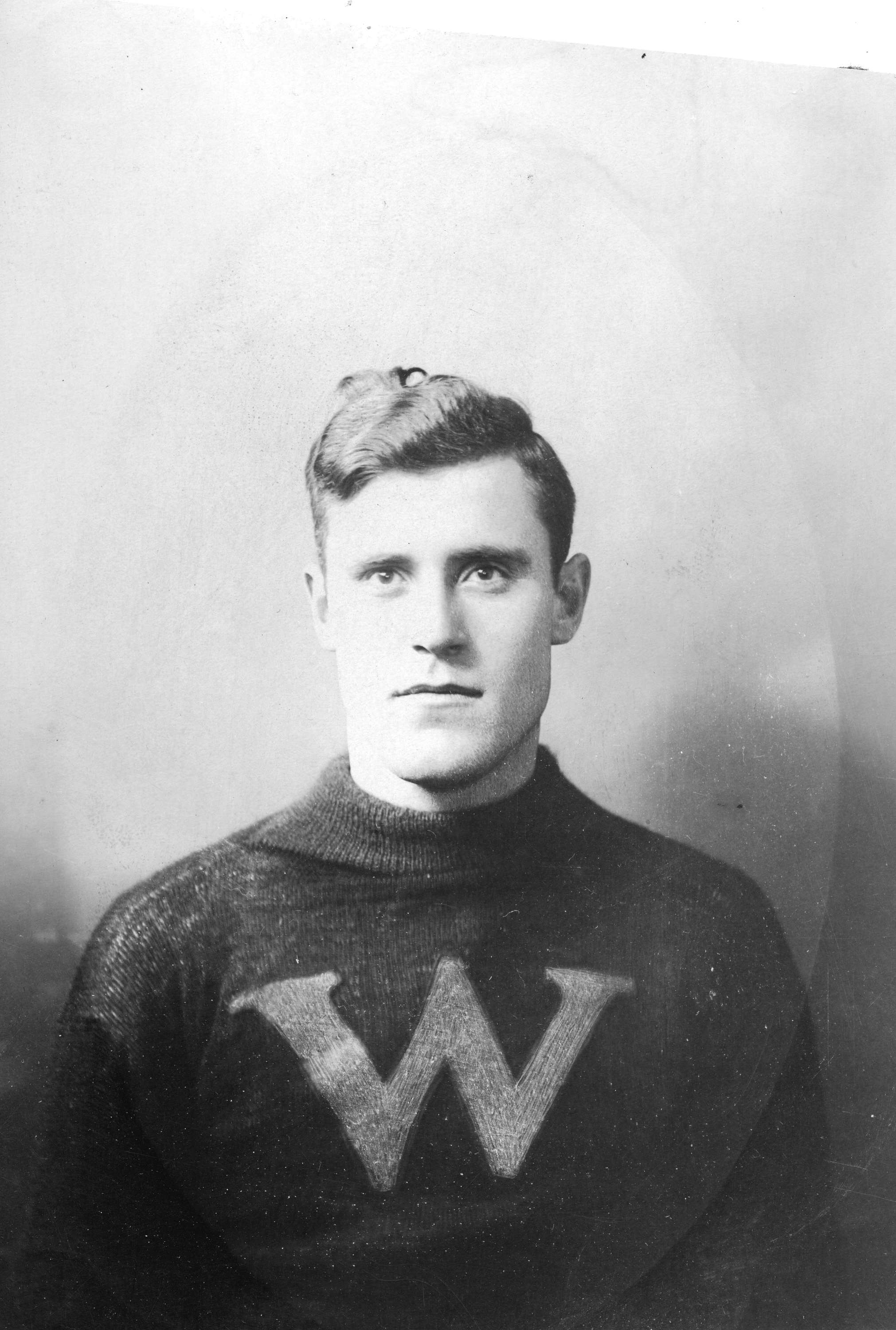 Photograph of ice hockey player Archie "Sue" McLean, New Westminster Hockey Team Champions P.C.H.A.